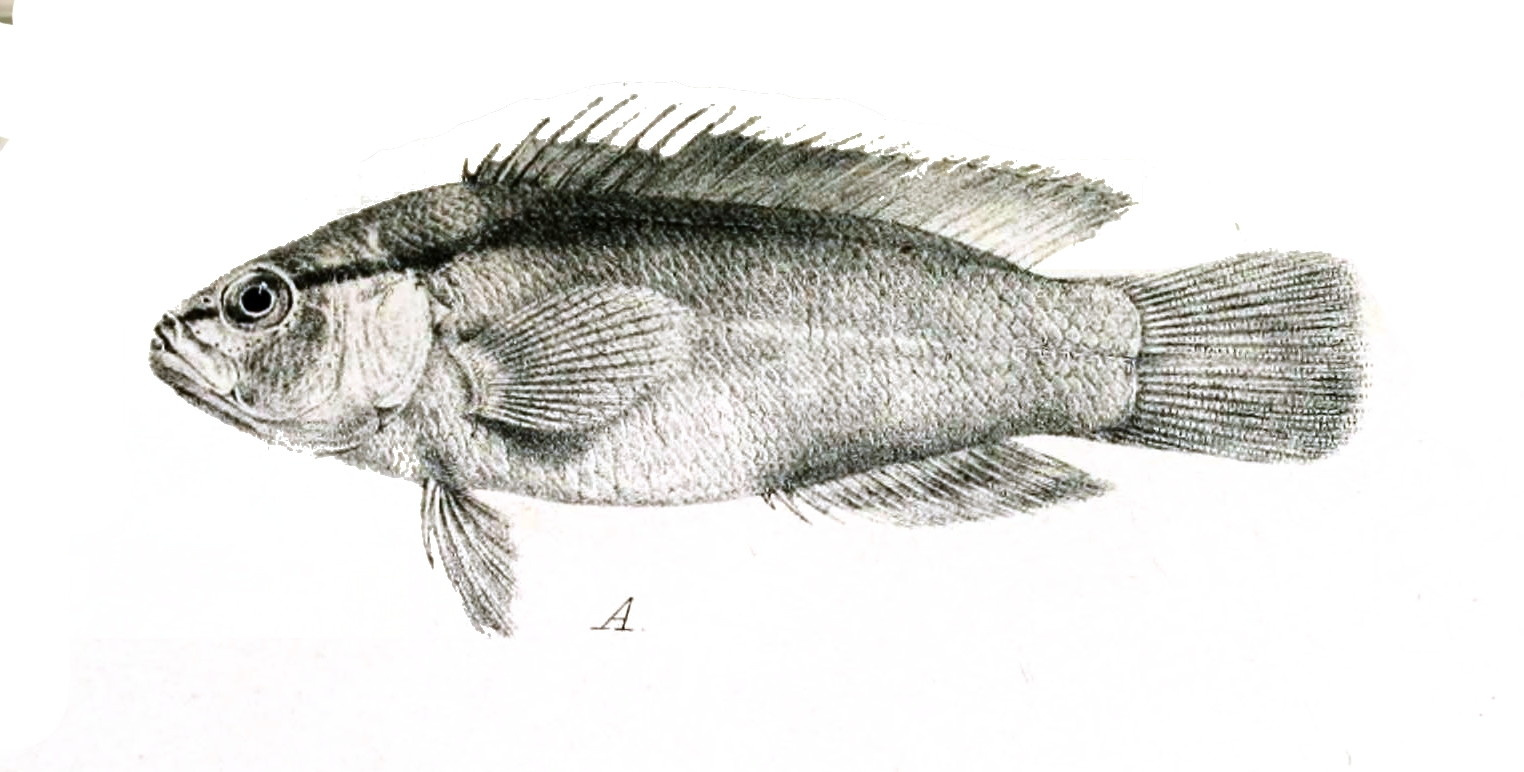 Pseudochromis perspicillatus = Pseudochromis perspicillatus Günther, 1862